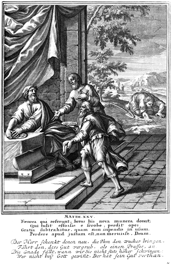 A depiction of the parable of talents, showing two men brining their money back to their master